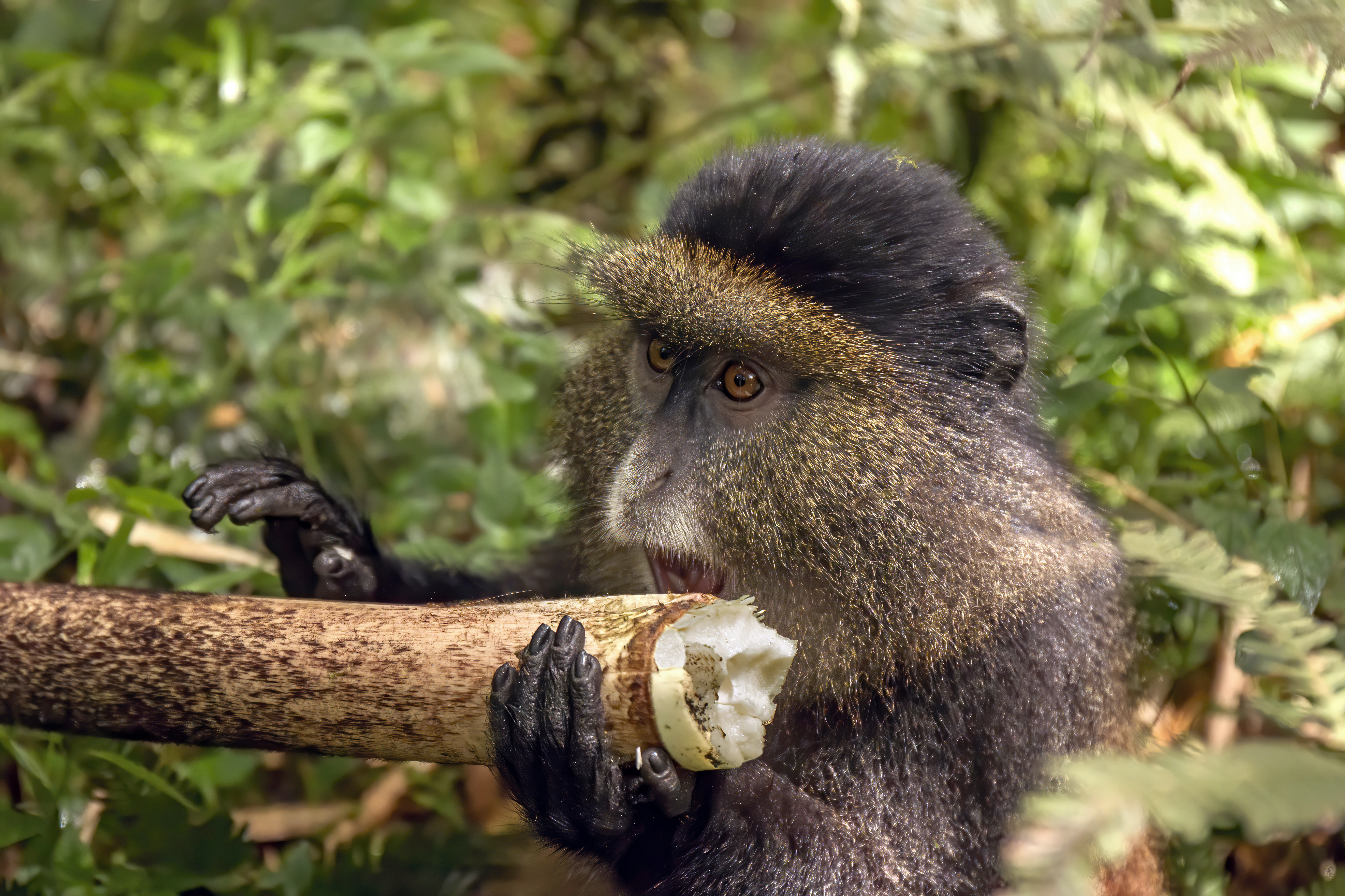 Golden monkey (Cercopithecus kandti) eating bamboo, Volcanoes National Park, Rwanda